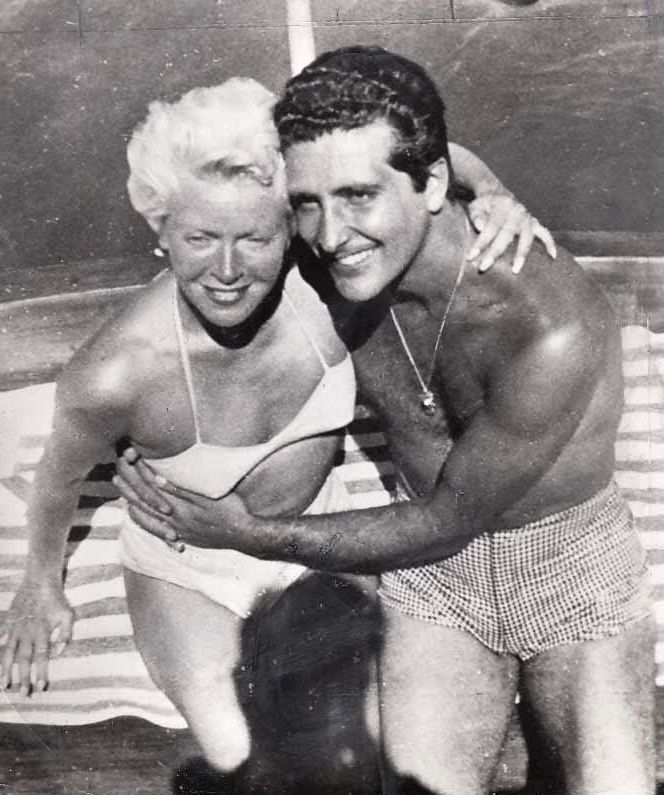 Lana Turner and Johnny Stompanato, c. 1957